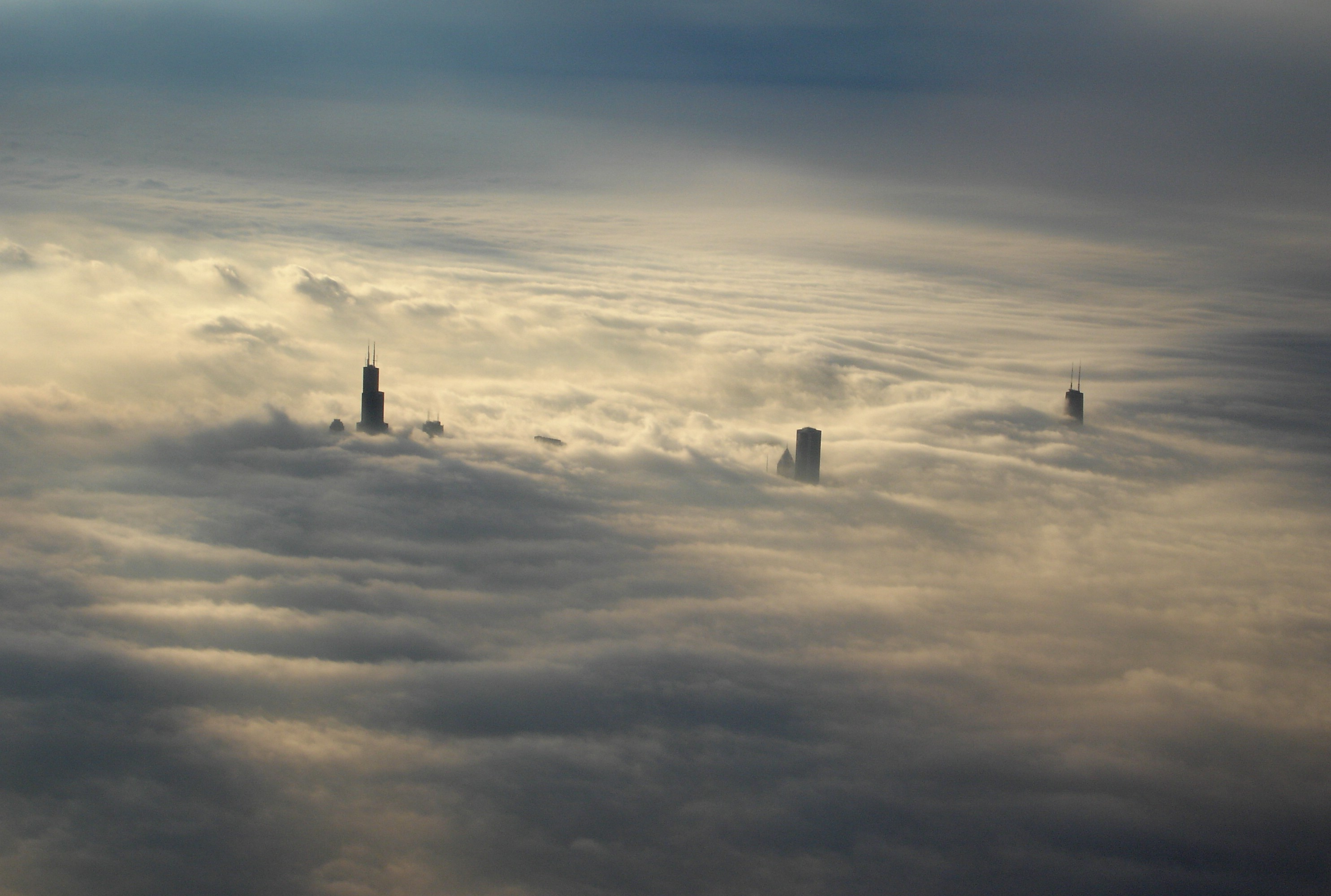 Chicago skyline seen from above the clouds from an airplane.